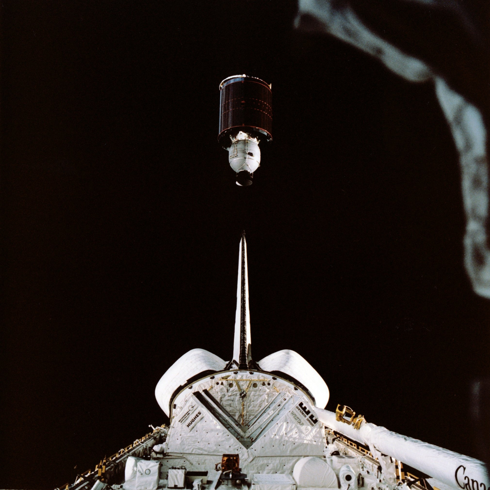 View of the Palapa B-2 satellite after deployment on STS-41-B. View of the Palapa-B and the Shuttle Challenger begining their separation after deployment of the communications satellite. This view is from the aft windows on the flight deck. The Shuttle pallet satellite (SPAS-01A) is partly visible at lower center. The Canadian-built remote manipulator system (RMS) arm is in its stowed position at lower right. Both shields for the Palapa and the Westar VI satellite were opened for the deployment.